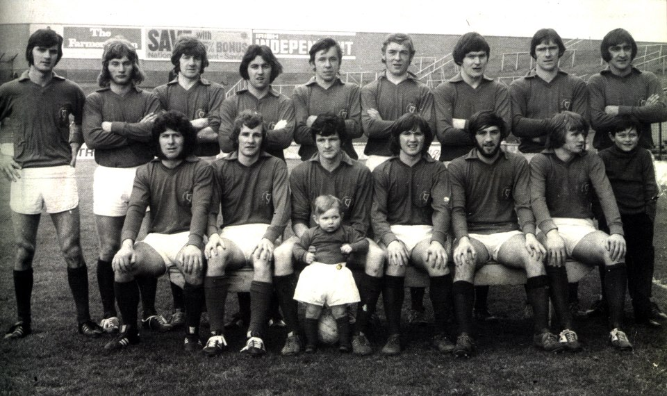 The Combined Universities Gaelic Football Team that played in the final of the GAA Inter-Provincial Championship, the Railway Cup, on 17 March, 1973 at Croke Park, Dublin. Team: Back Row (Left to Right): Joe Waldron (UCD/Galway), Cyril Hughes (St Patrick's College, Maynooth/Carlow), Dan Kavanagh (UCC/Kerry), Gerry McHugh (QUB/Antrim), Dave McCarthy (UCD/Cork), Noel Murphy (UCC/Cork), Séamus Killough (QUB/Antrim), John O'Keeffe (UCD/Kerry), Kevin Kilmurray (UCD/Offaly). Front Row (Left to Right): Anthony Regan (UCG/Roscommon), Brendan Lynch (UCC/Kerry), Paudie Lynch (UCC/Kerry, Captain), John Rainey (QUB/Antrim), Anthony McGurk (QUB/Derry), Paddy Moriarty (QUB/Armagh) Sub (Not in Photograph): J.P. Keane (UCD/Mayo) for Cyril Hughes, 45 min